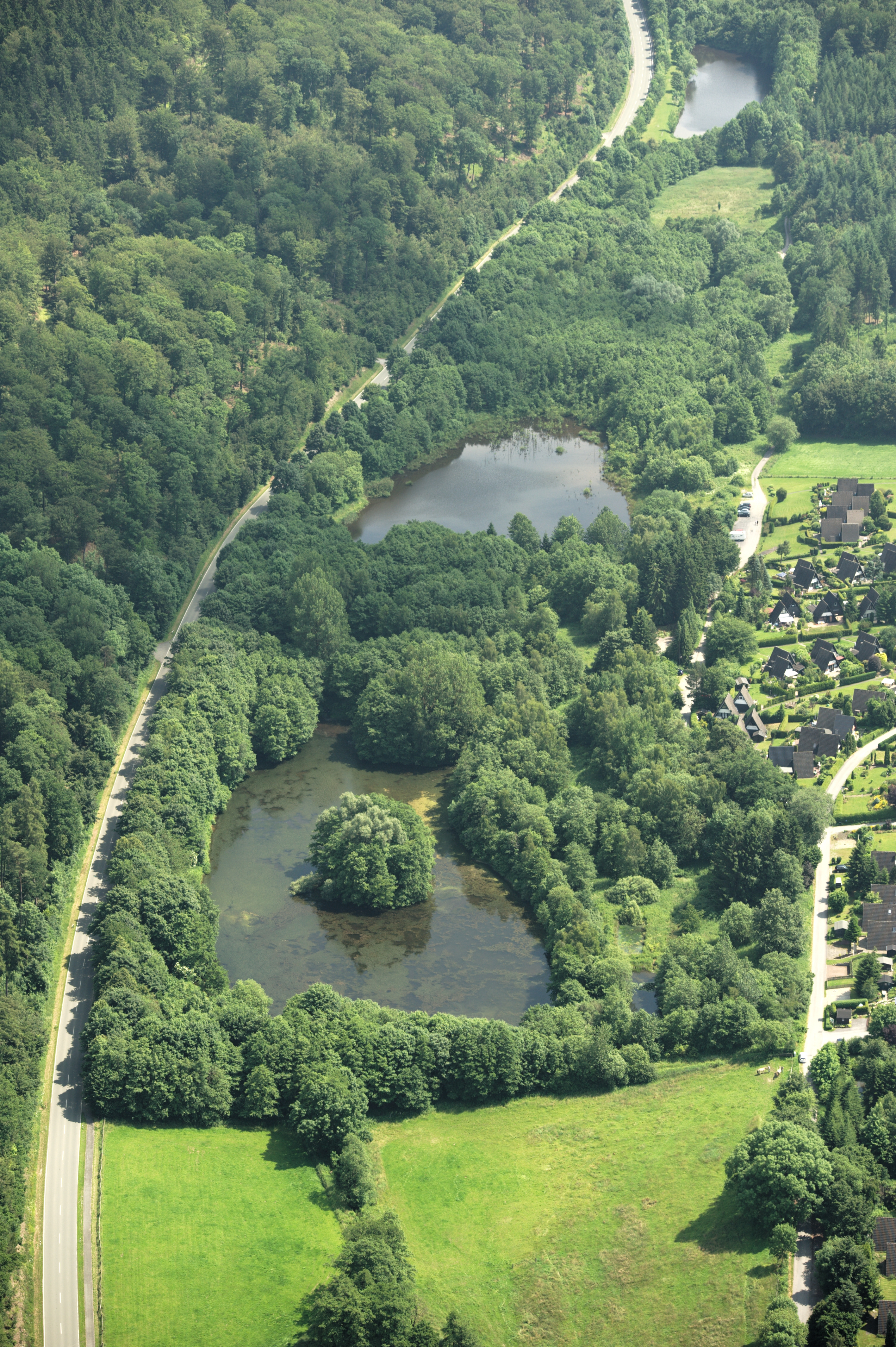 Fotoflug Sauerland-Ost; Teiche südöstlich von Fürstenberg, Bad Wünnenberg The making of this document was supported by the Community-Budget of Wikimedia Germany.